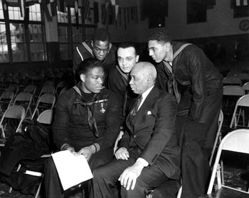 Dorie Miller speaking with sailors and a civilian at the Naval Training Station in Great Lakes, Illinois, January 7 1943.